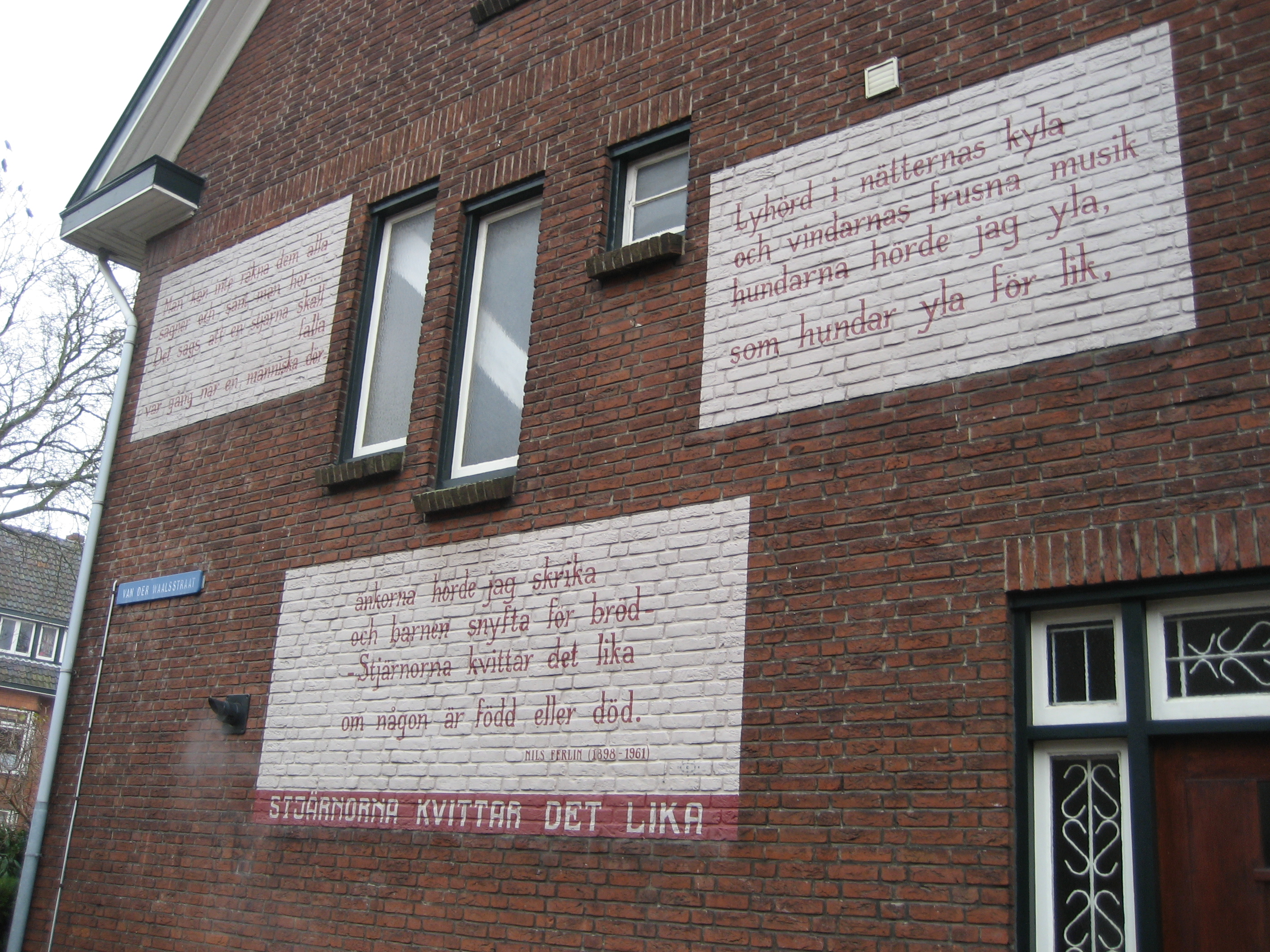 Nils Ferlin: Stjärnorna kvittar det lika ( 't Is de sterren om het even) Wall Poem in Leiden, Van der Waalsstraat, corner De Sitterlaan